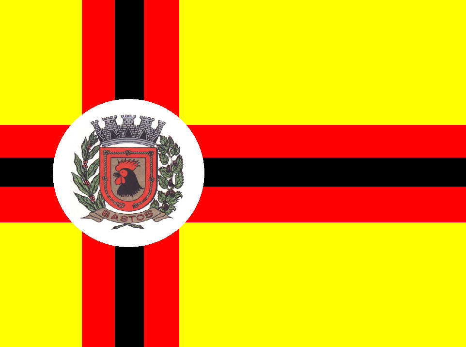 Flag of the city of Bastos, São Paulo state, Brazil. Made based on the municipal website information. Emerson